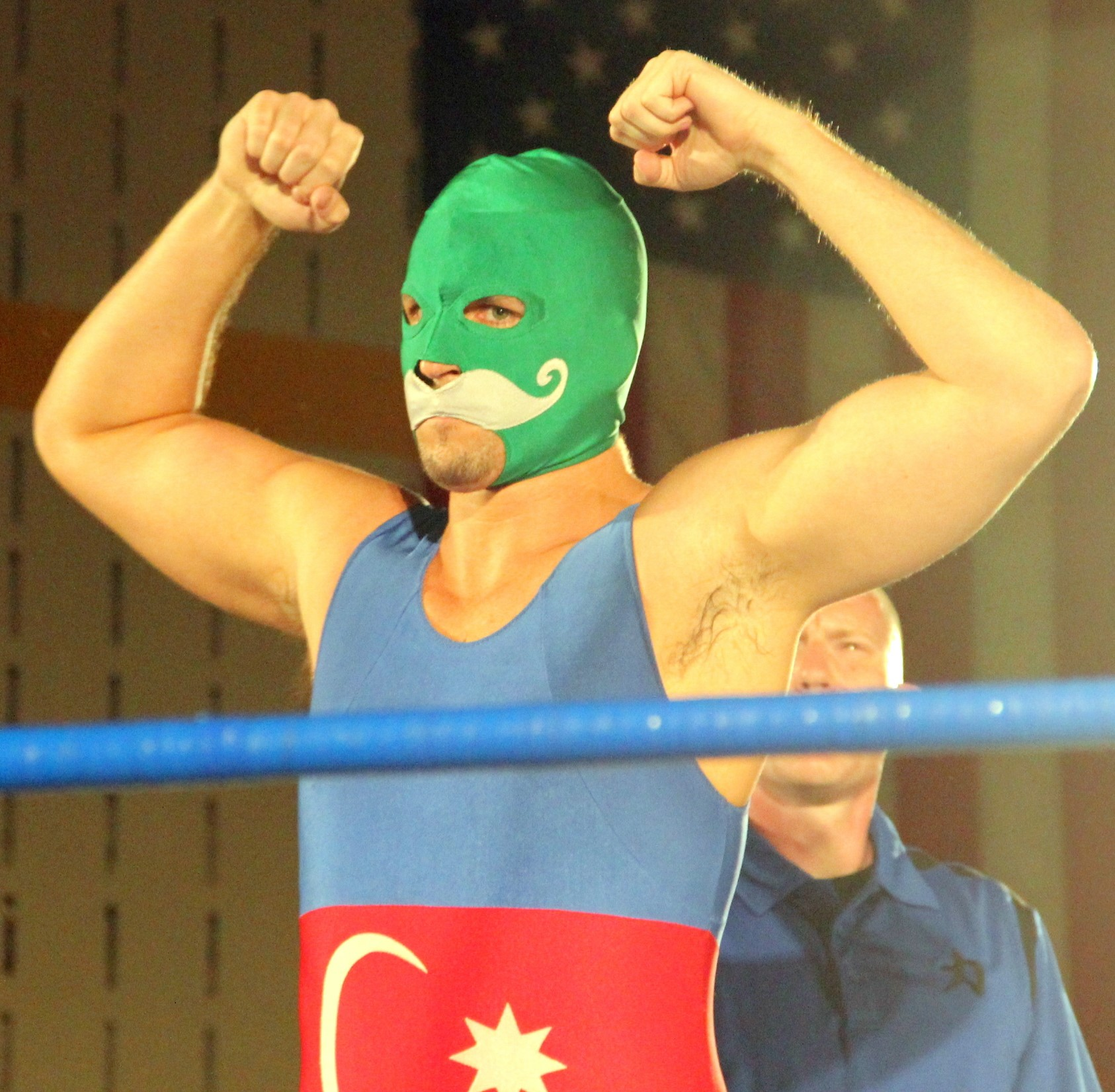 Professional wrestler Mr. Azerbaijan (Dustin Howard aka Chuck Taylor) at Chikara's King of Trios event in September 2015.